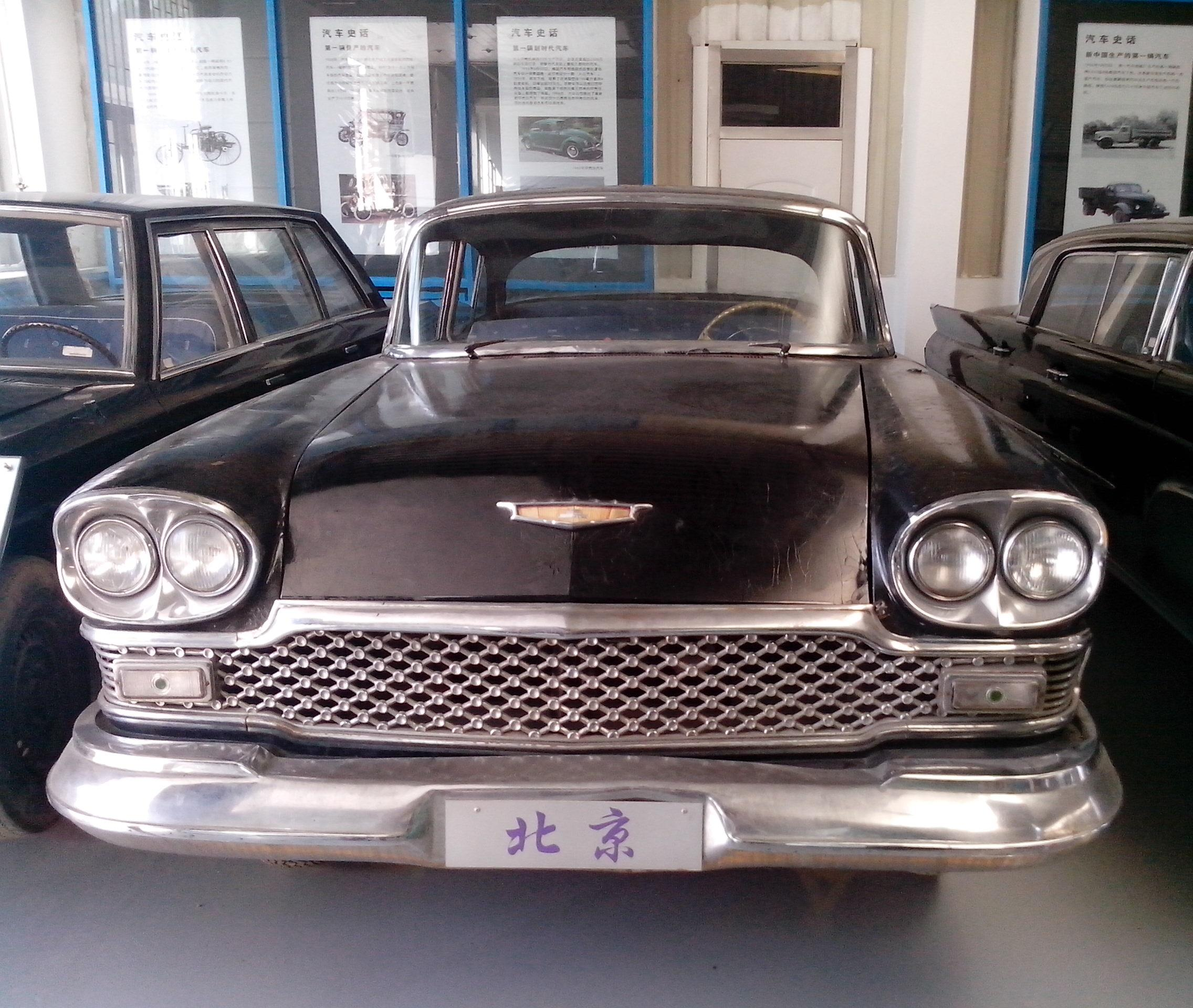 The 1960 Beijing CB4 luxury car, its style copied from a 1956 Buick with a Cadillac-inspired front end. The car showed in the picture is now collected in the Automotive Lab in Jilin University, along with several antique cars. It used to be in the FAW warehouse in Changchun. Developed in 1958, this second series "CB4" appeared in 1959. 22 were built from 1958 until 1962It has two rows of seats and a 188hp V8 engine which could propel it to 160km/h.